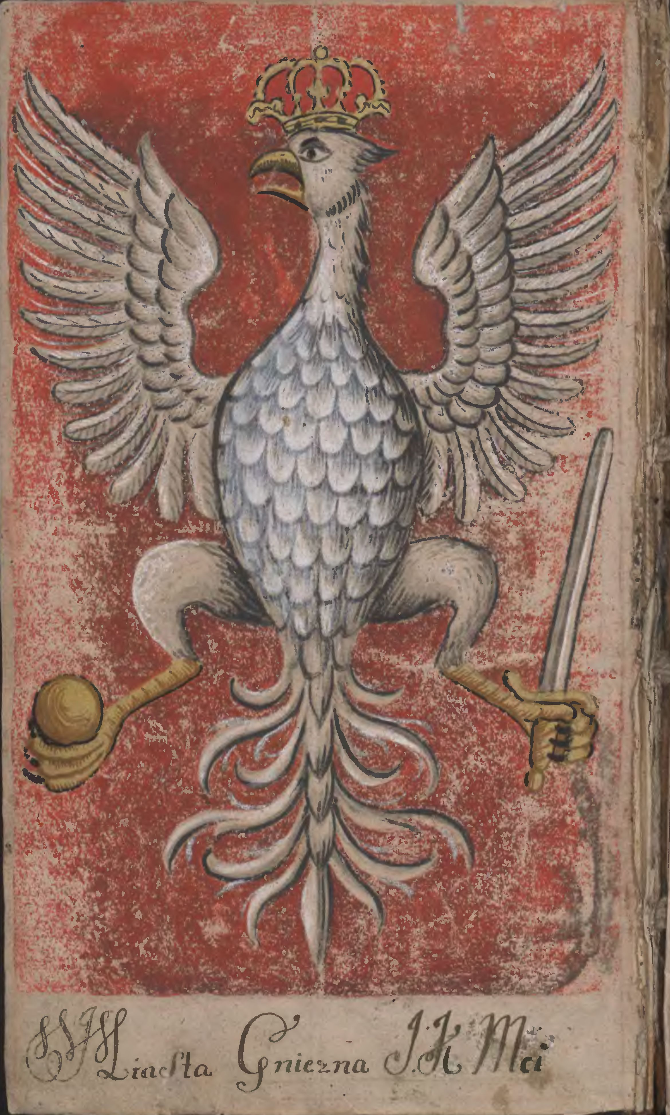 Coat of arms of Gniezno from town council's book.